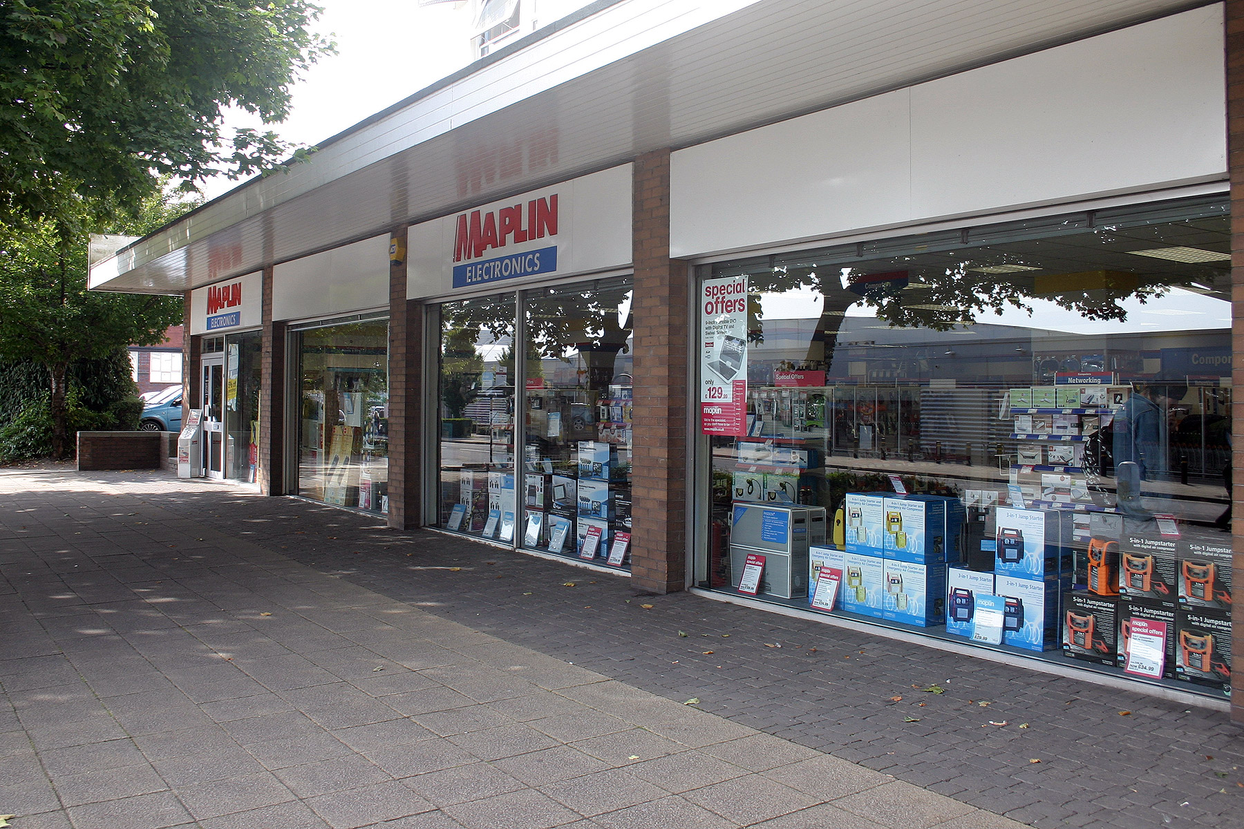 Maplins, a thriving and better alternative to PC World - opposite Sainsbury's.